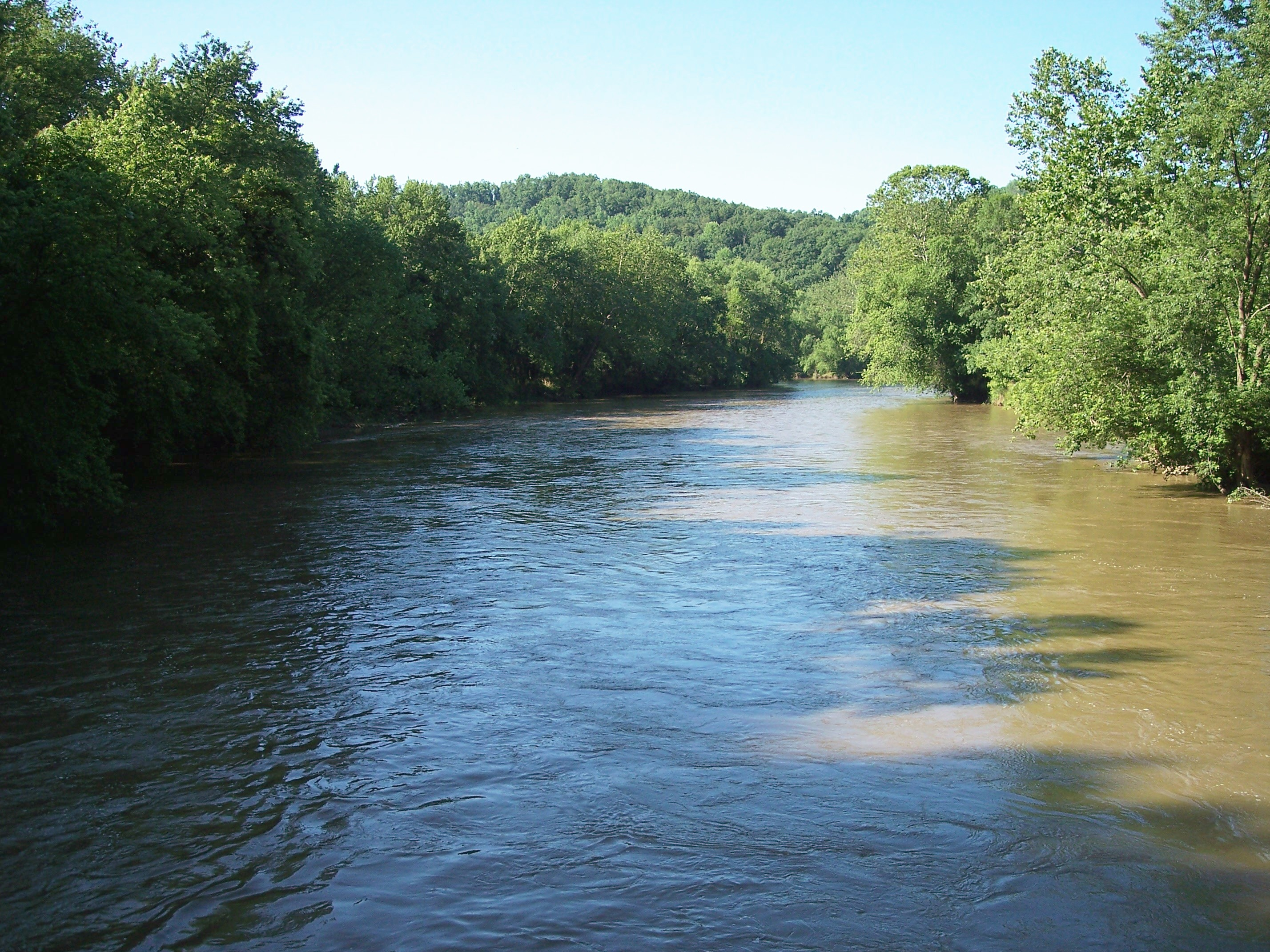 The Mohican River as viewed downstream from County Road 365 in Tiverton Township, Coshocton County, Ohio